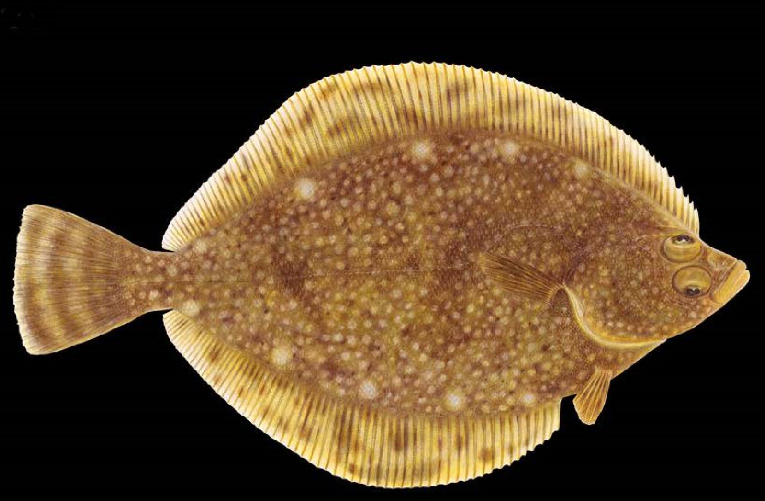 Rock sole, Lepidopsetta bilineata, image by Joseph R. Tomelleri